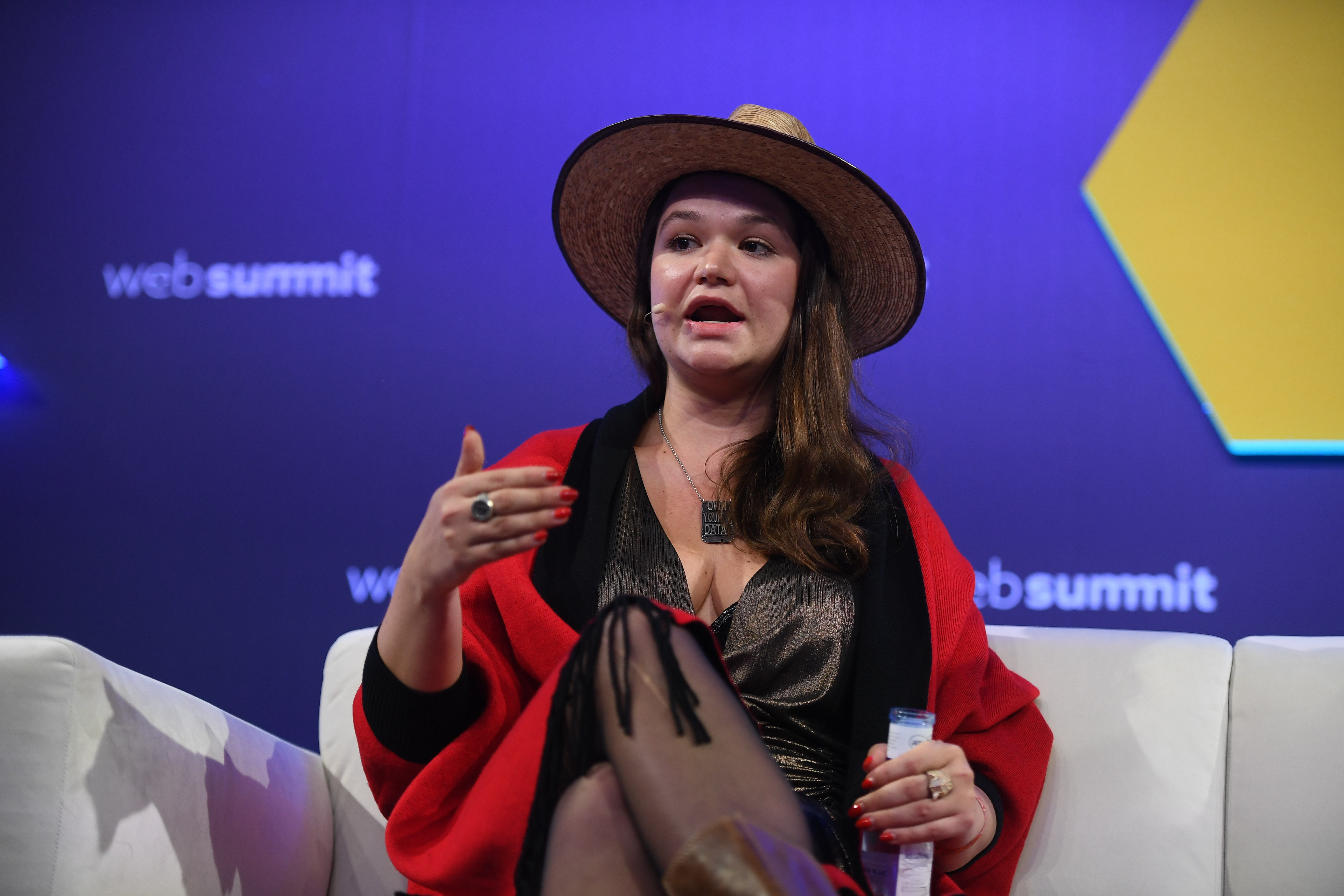 6 November 2019; Brittany Kaiser, Co-founder, Own Your Data Foundation, on the ContentMakers stage during day two of Web Summit 2019 at the Altice Arena in Lisbon, Portugal. Photo by Sam Barnes/Web Summit via Sportsfile